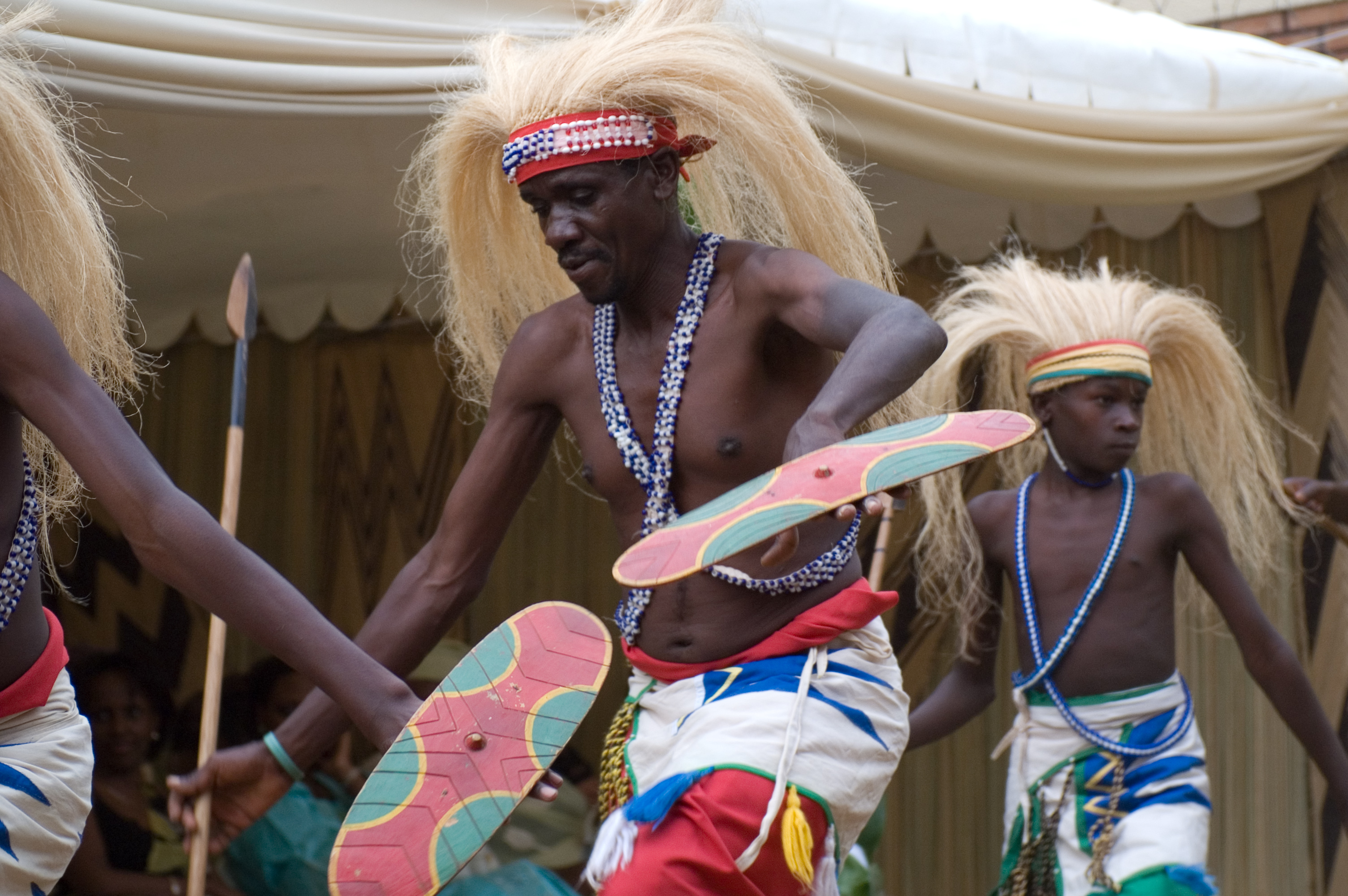 Intore (Rwandan warriors)